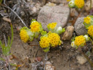 Eriophyllum pringlei. BLM photo, no copyright.